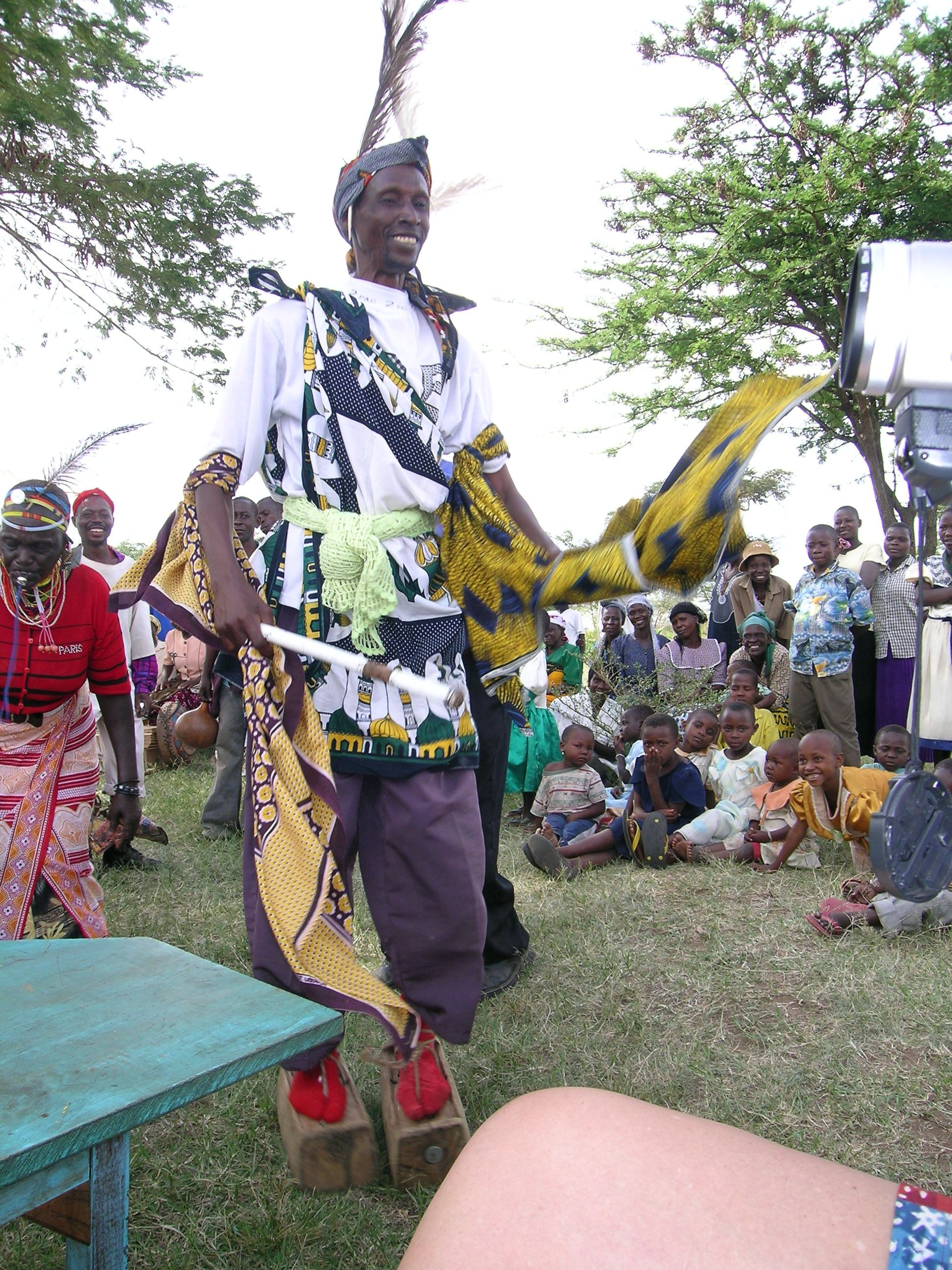 celebration (Kuria tribe) - Kenya At the school which is between areas where two tribes live, Kuria and Luo, the community comes together when honored guests arrive from far away.